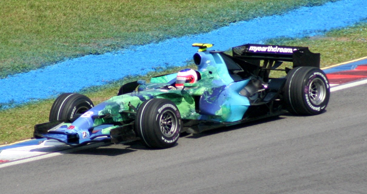 Rubens Barrichello driving for Honda F1 at the 2007 Malaysian Grand Prix.